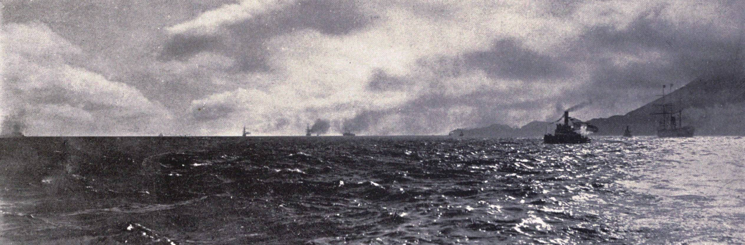 Original caption (cropped out): The City of Peking, Australia, and City of Sydney passing out of the Golden Gate, May 26, 1898. From Harper's Pictorial History of the War with Spain, Vol. II, published by Harper and Brothers in 1899.